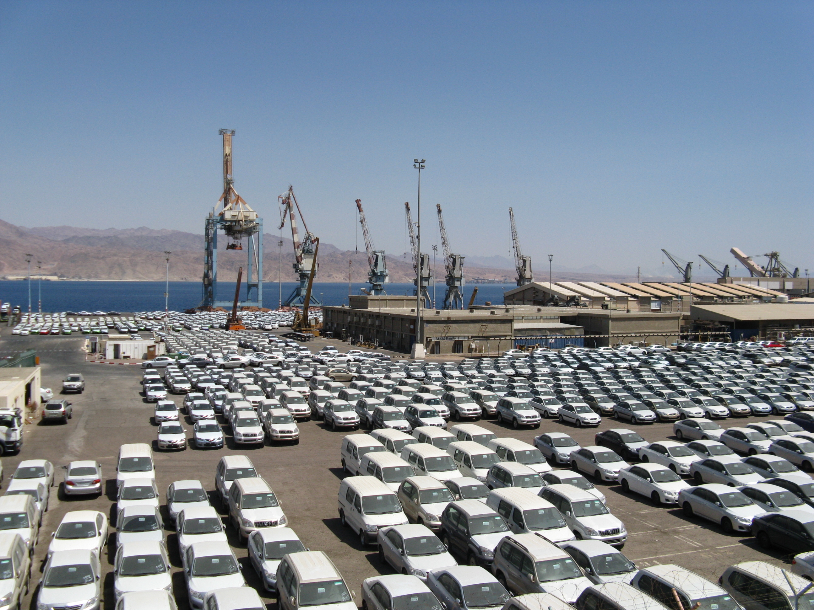 Eilat's Harbor